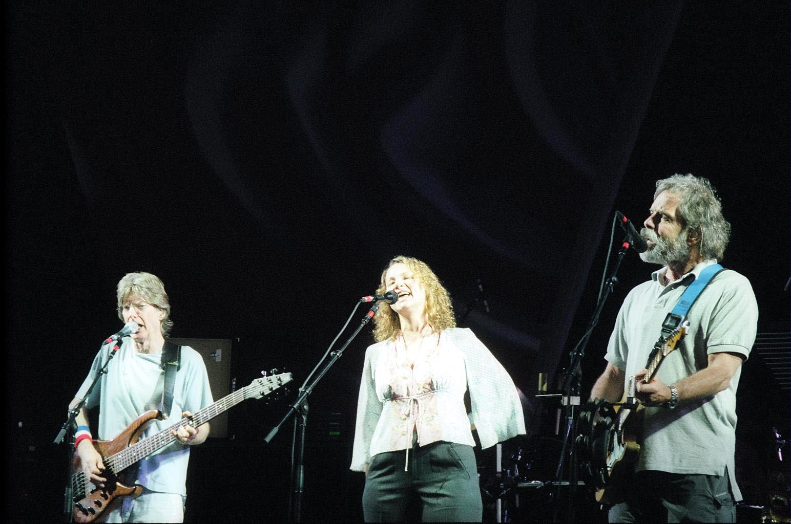 Phil Lesh, Joan Osbourne, and Bob Weir (from left to right) of The Dead performing at Virginia Beach Amphitheater, Virginia Beach, Virginia, June 17, 2003